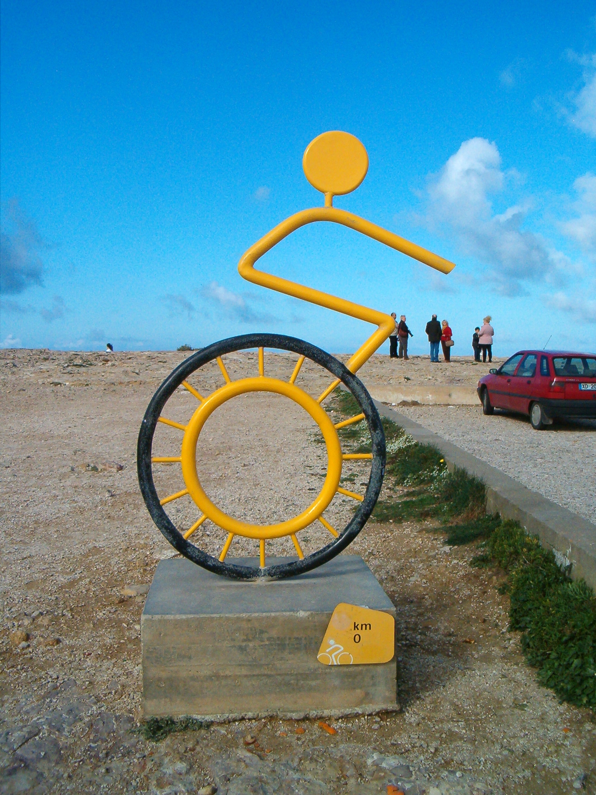 Ecovias do Algarve near St.Vicent Cape (Sagres)